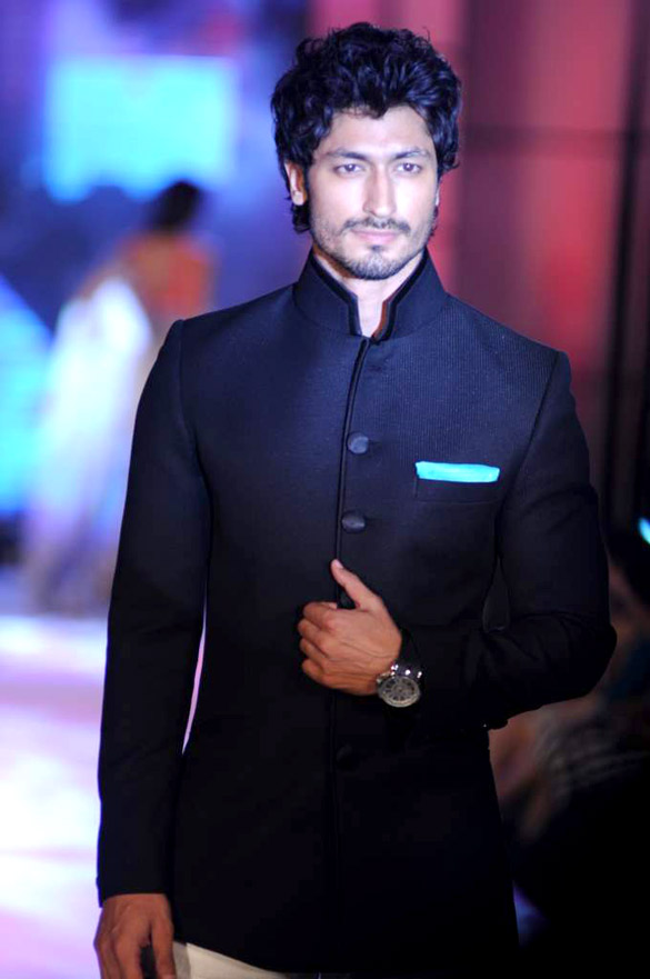 Vidyut Jamwal walks for Manish Malhotra & Shaina NC's show for CPAA